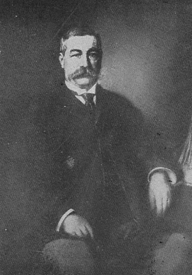 Ferdinand Claiborne Latrobe, former Mayor of Baltimore, Maryland.